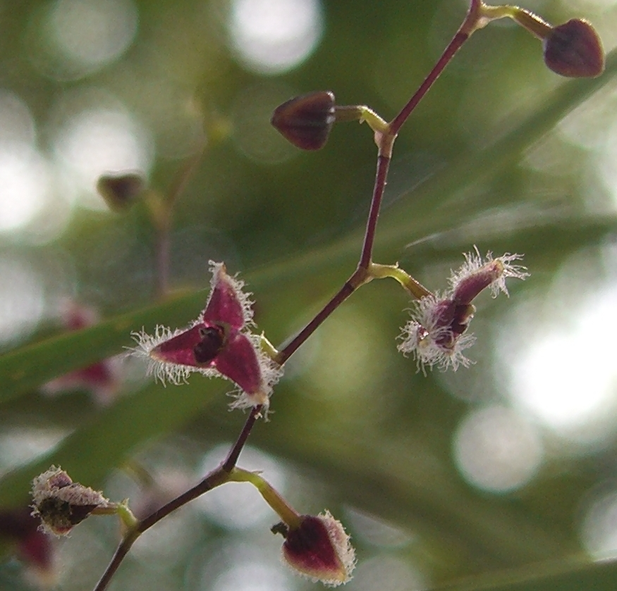 Please report references to .